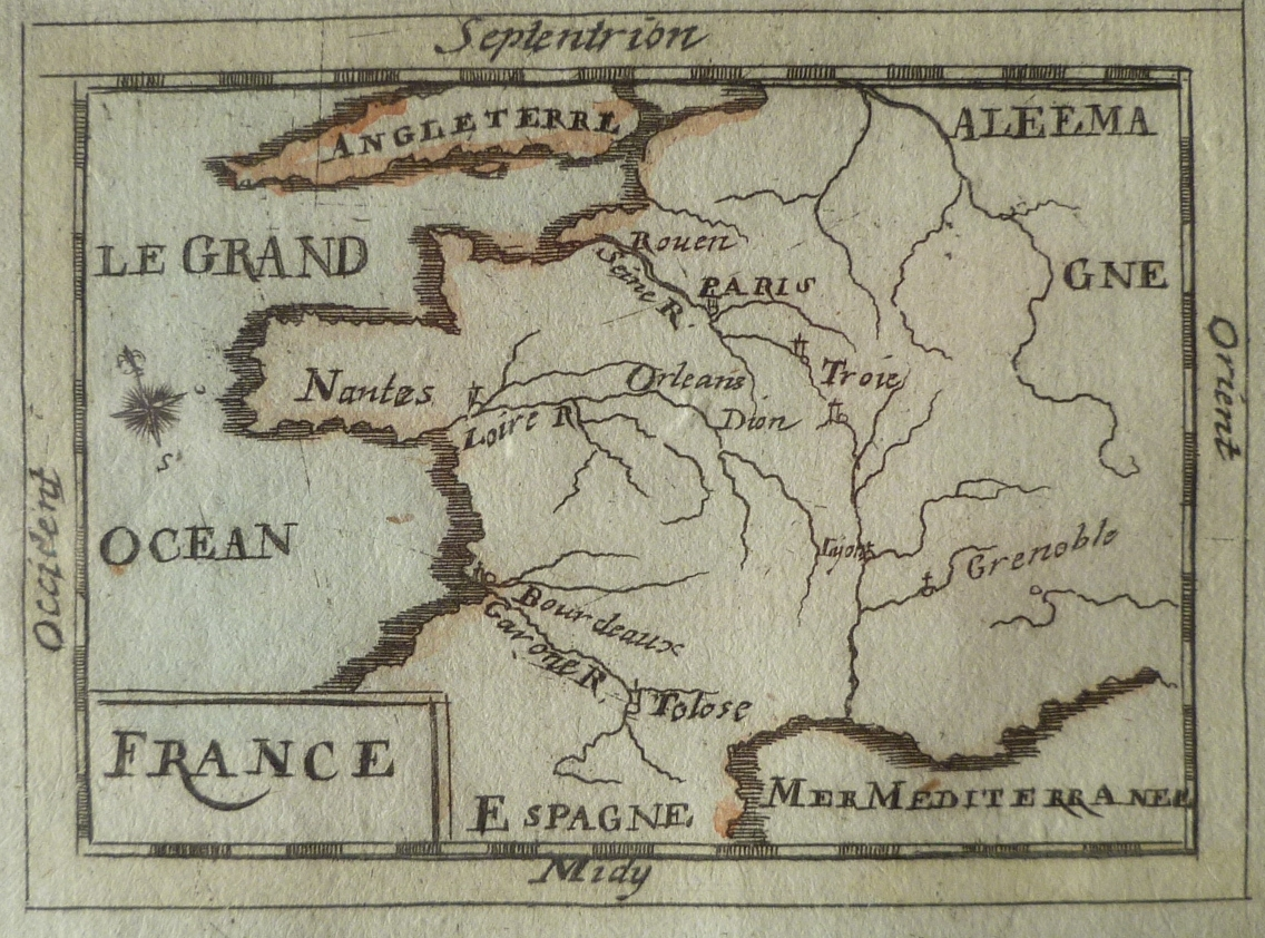 Miniature map of France by Alain Manesson-Mallet, 1687, probably extracted from a book. Size: 7 cm x 9 cm. From up-loader's collection.